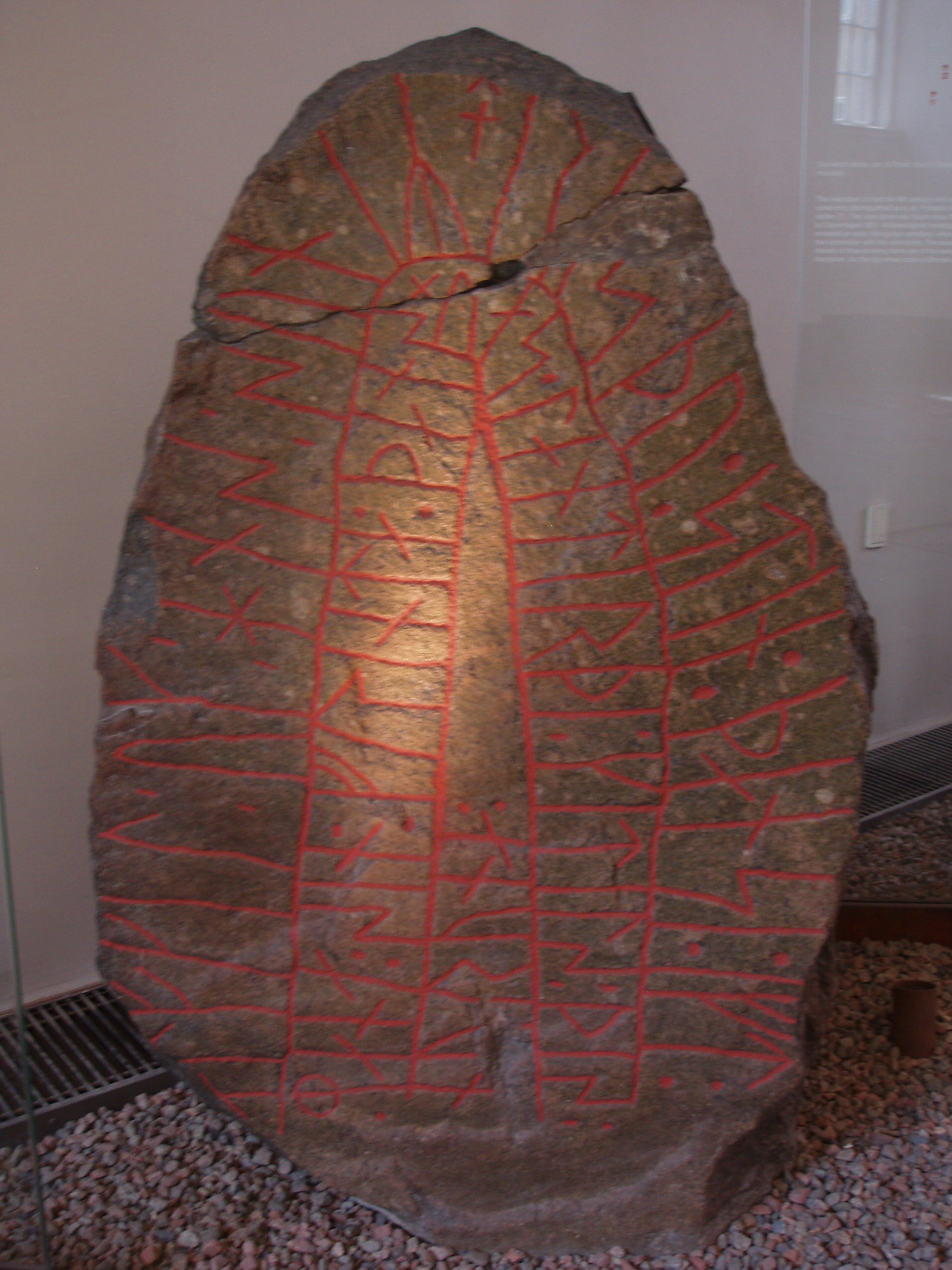 The Egå runestone, found in eastern Jutland, Denmark. Now located in the National Museum of Copenhagen.